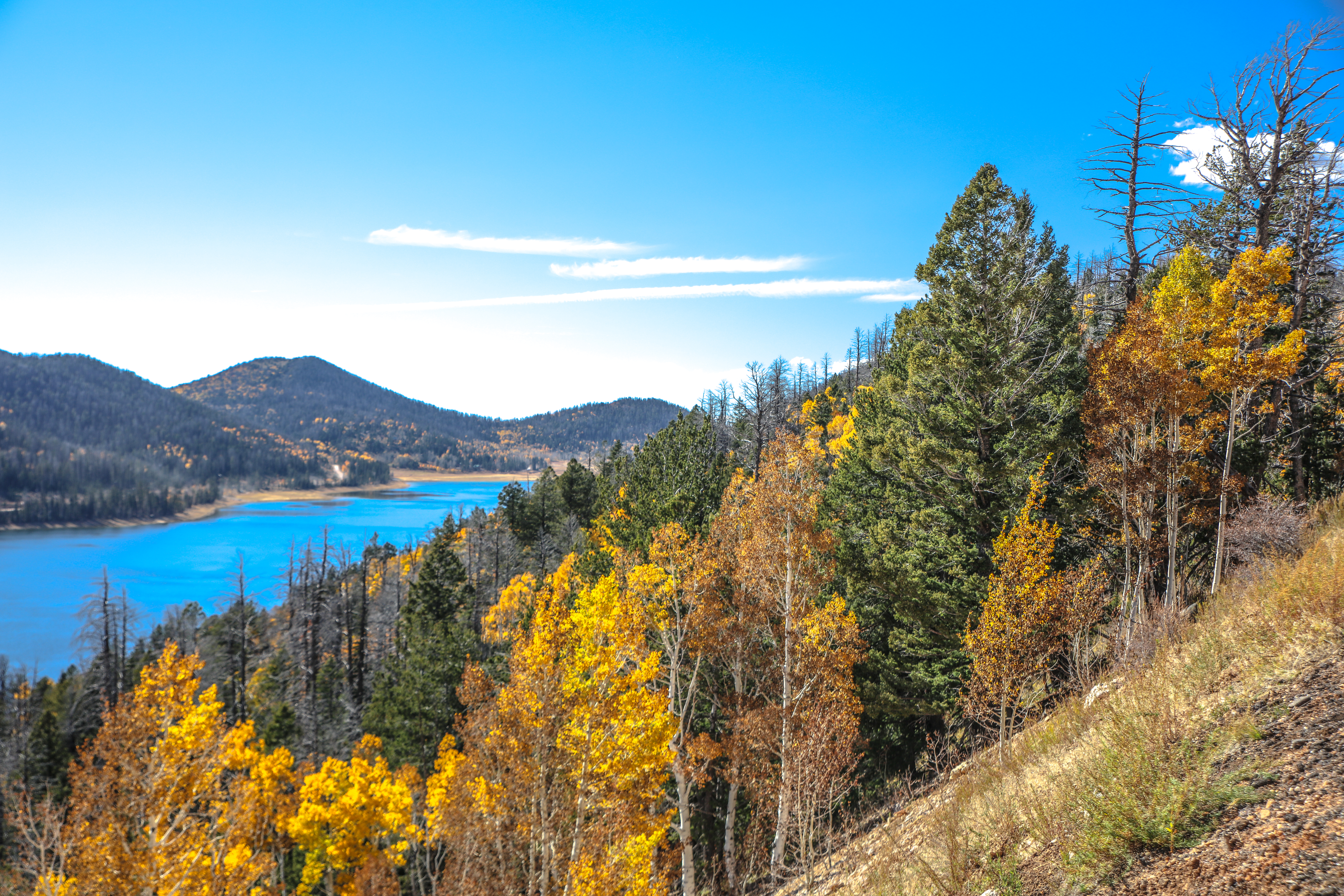 scenic fall colours along Utah Hwy 14...Navajo Lake at 2850 m...